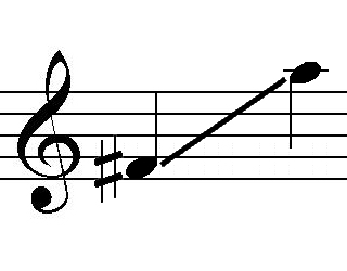 The vocal range (the notes) that can be played on a Duduk.